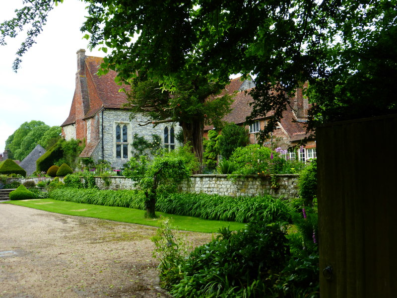 Glimpse of Court House from footpath